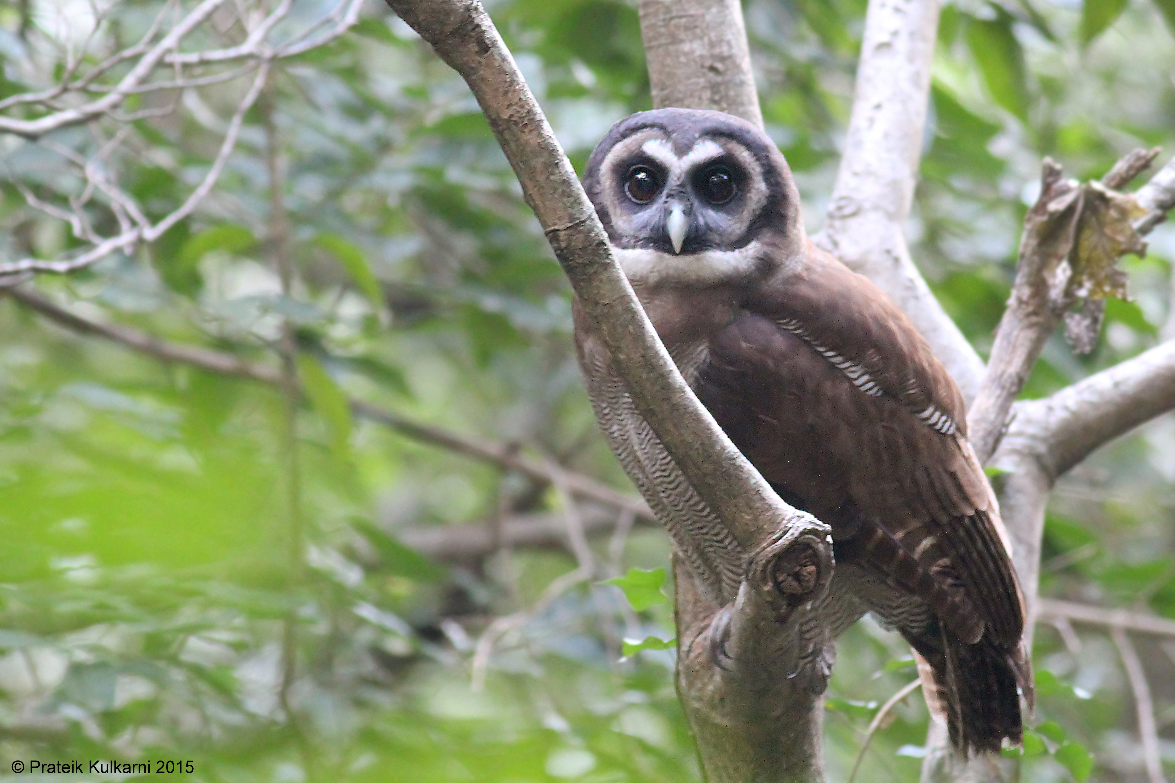 I clicked this huge owl in Sattal, Uttarakhand, India.